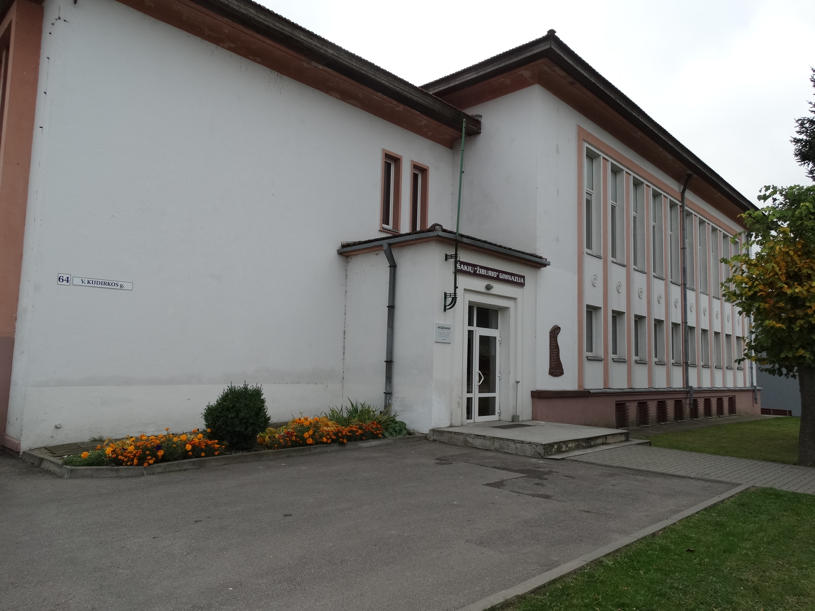 „Žiburys“ Gymnasium, Šakiai, Lithuania